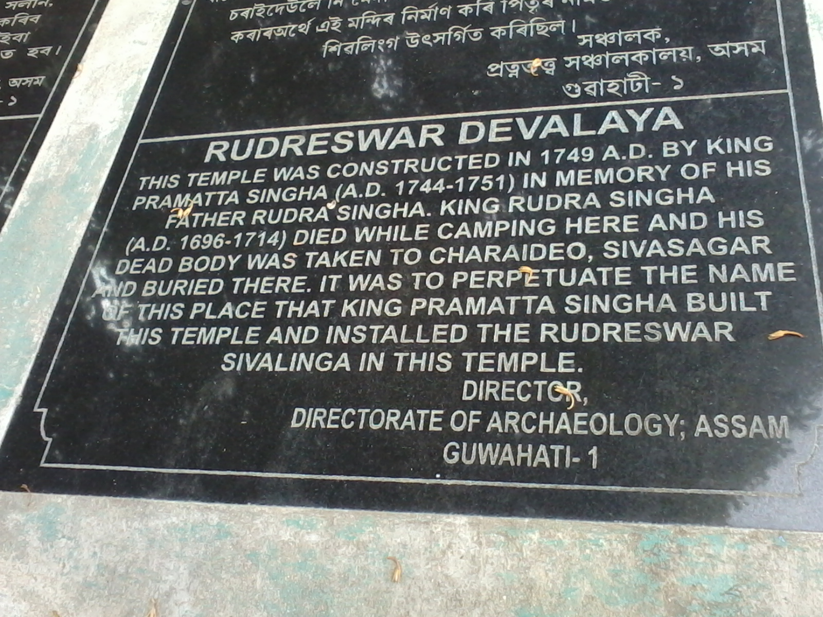 visited Rudreswar Devaloya in North Guwahati and took the photo